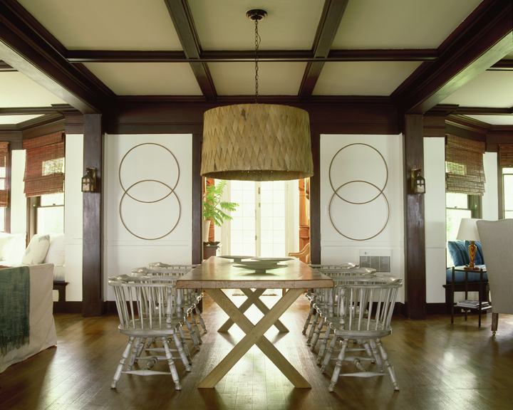 Interior featuring Huniford's approach to space